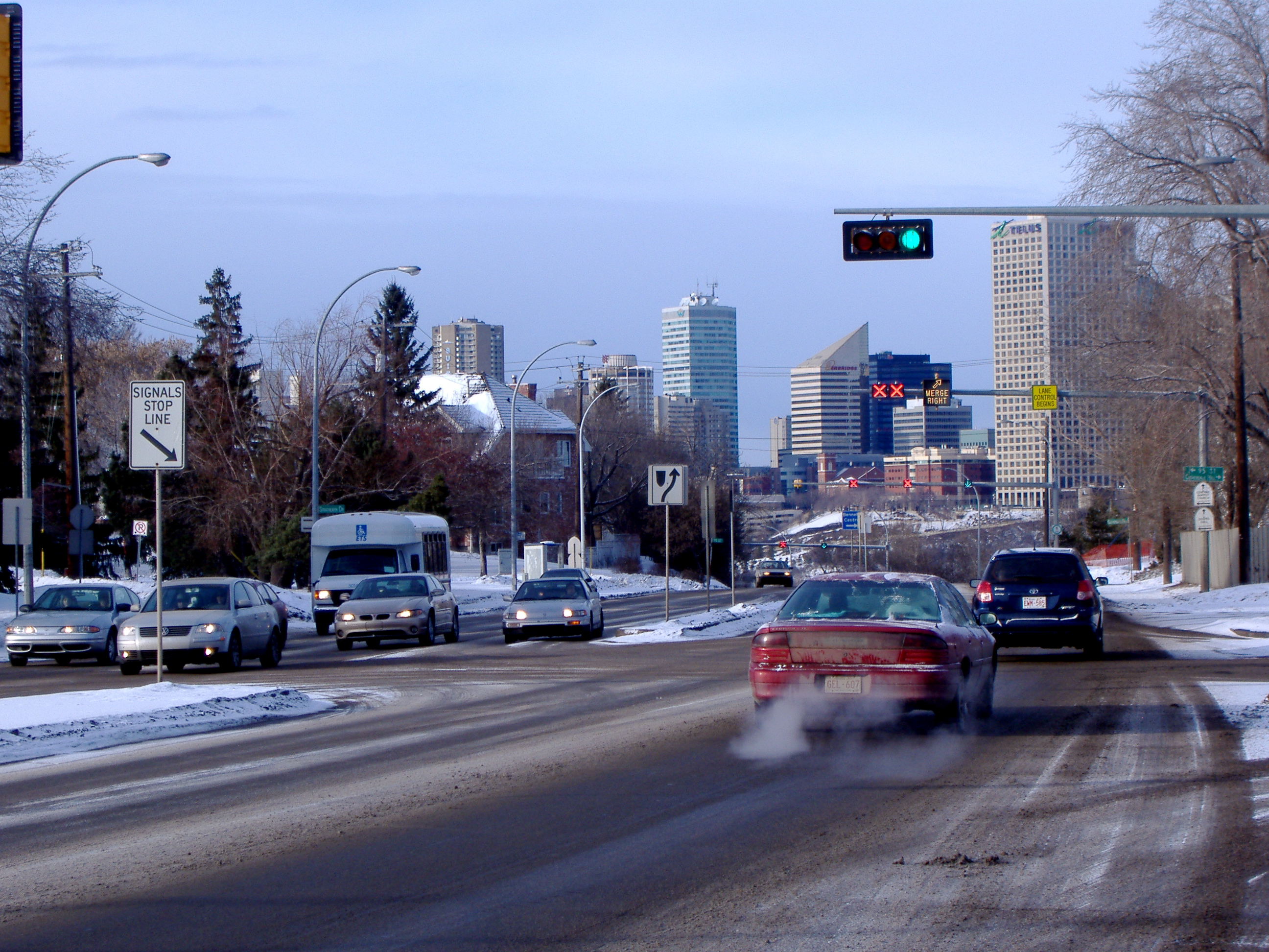 Taken at 1 PM on January 7, 2006.